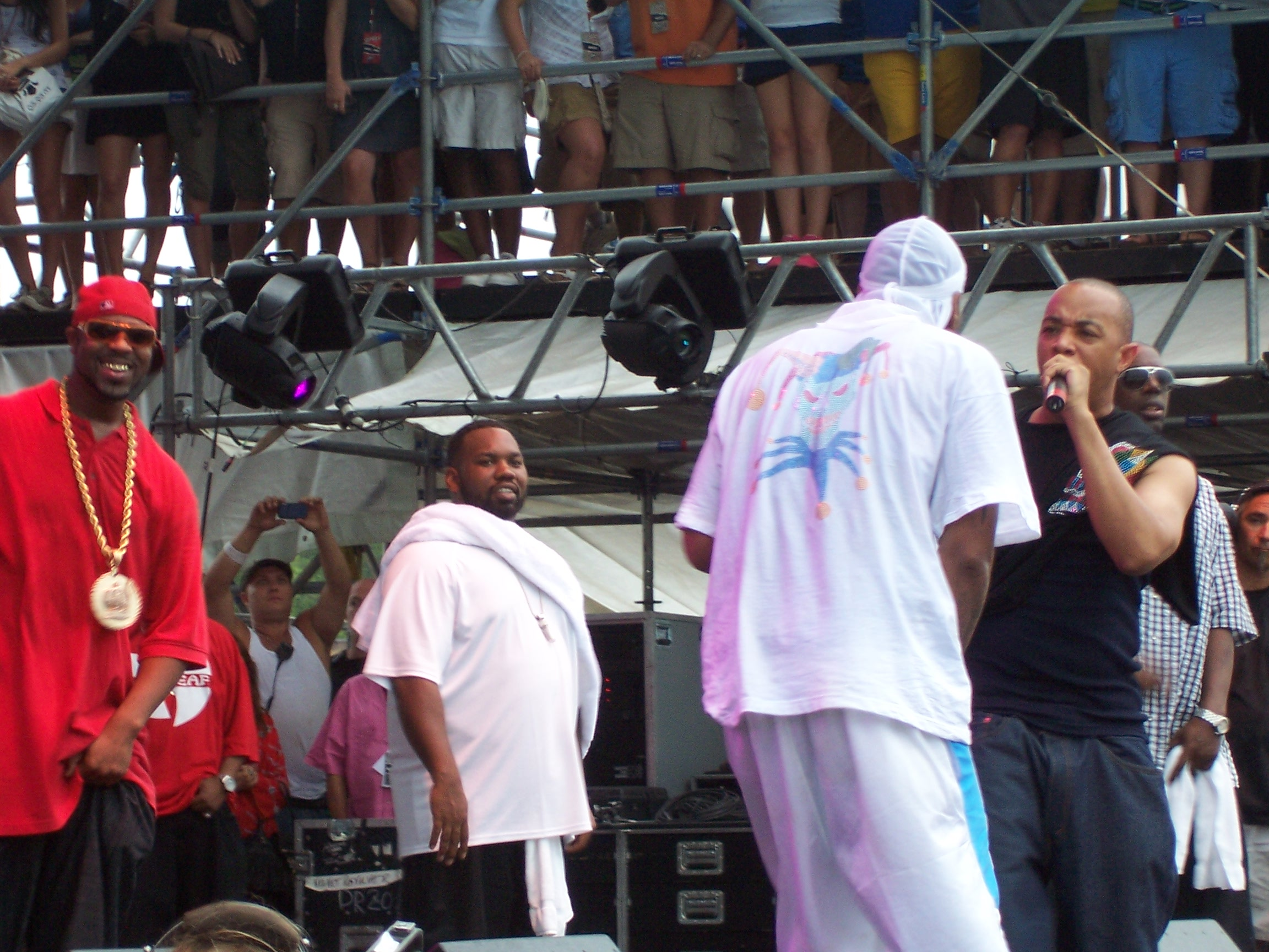 The Wu-Tang Clan at the Virgin Festival in 2007.